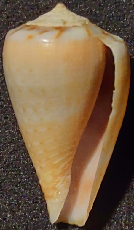 Conus Aplustre Front